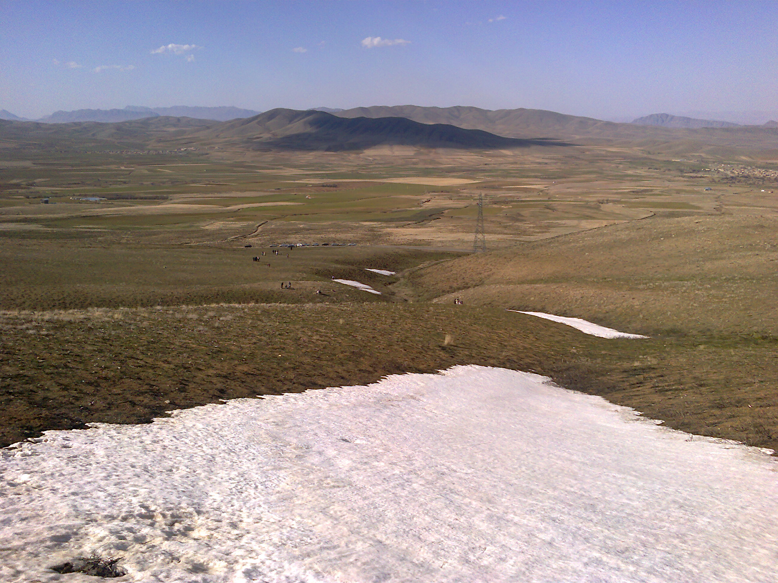 faraj abad فرج آباد روستایی زیبا در استان مرکزی شهرستان خمین